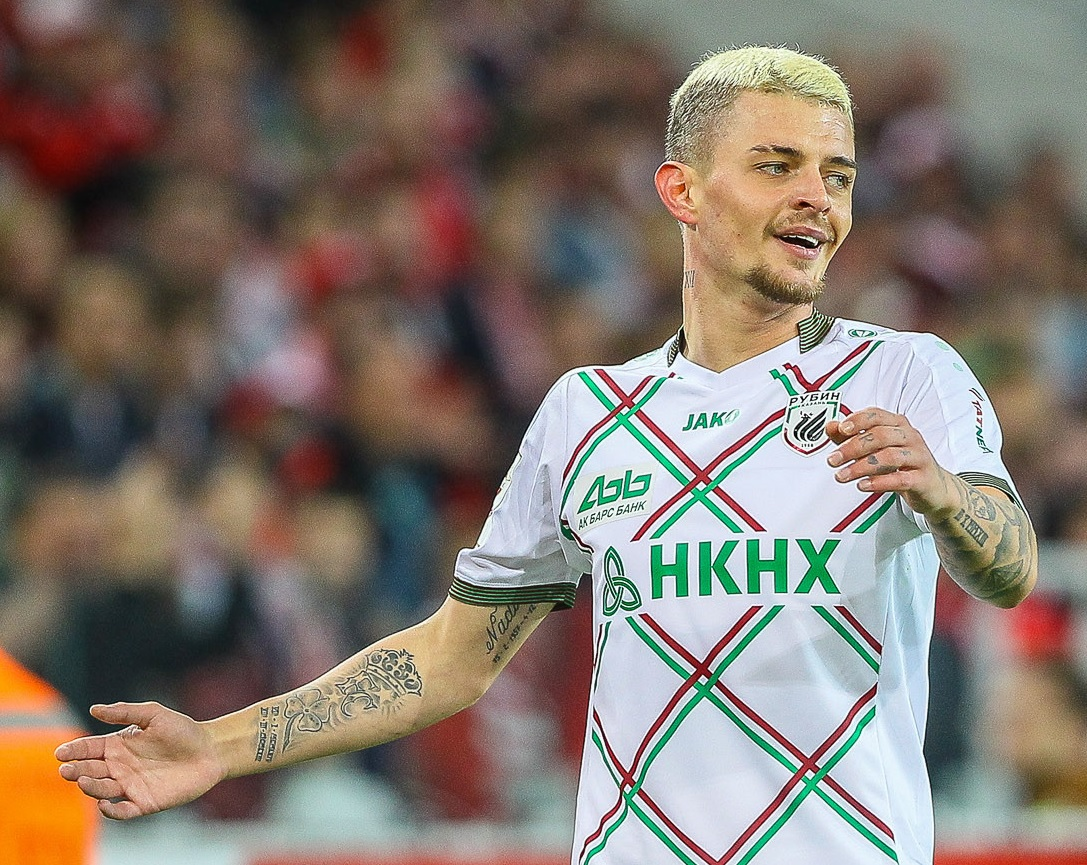 Maxime Lestienne with FC Rubin Kazan in a game against FC Spartak Moscow.